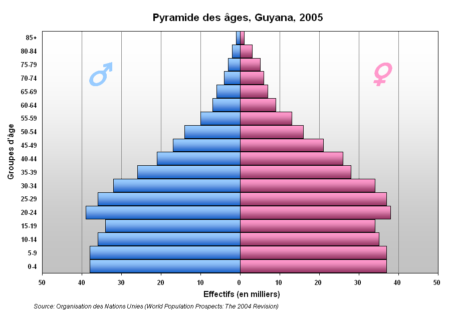 Guyana Population pyramid, 2005